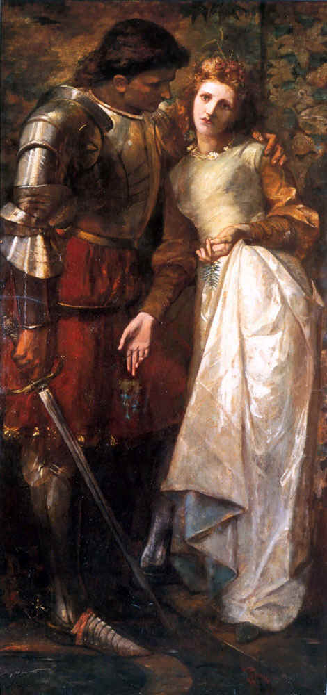 "Ophelia and Laertes (or Ophelia here is Rosemary)" oil on Canvas, location: Private collection.